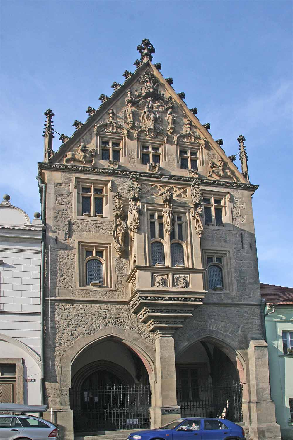 Stone House in Václavské Sq in Kutná Hora, Czech Republic. Česky: Kamenný dům na Václavském náměstí v Kutné Hoře.